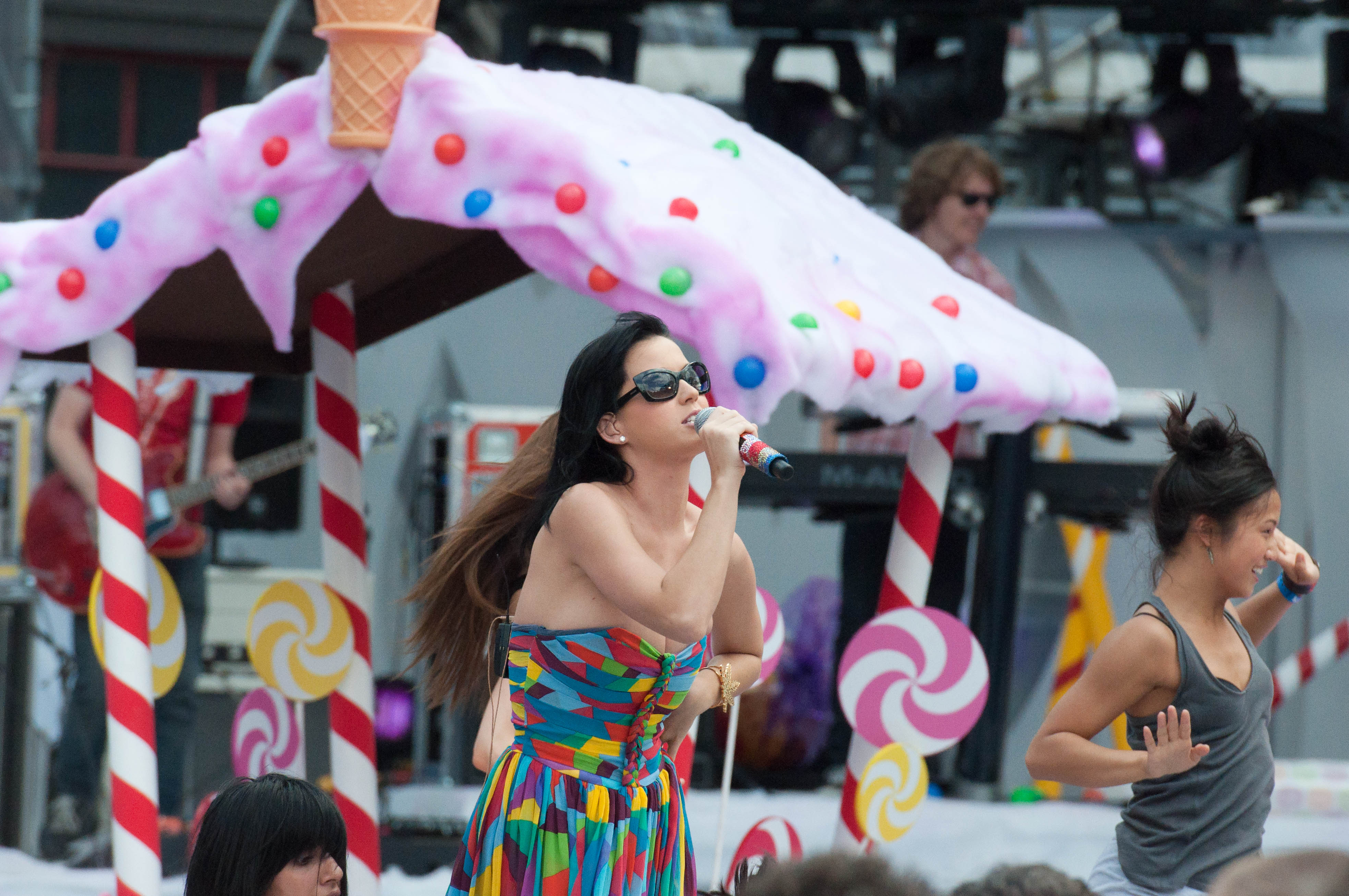 Katy Perry - MMVA Soundcheck